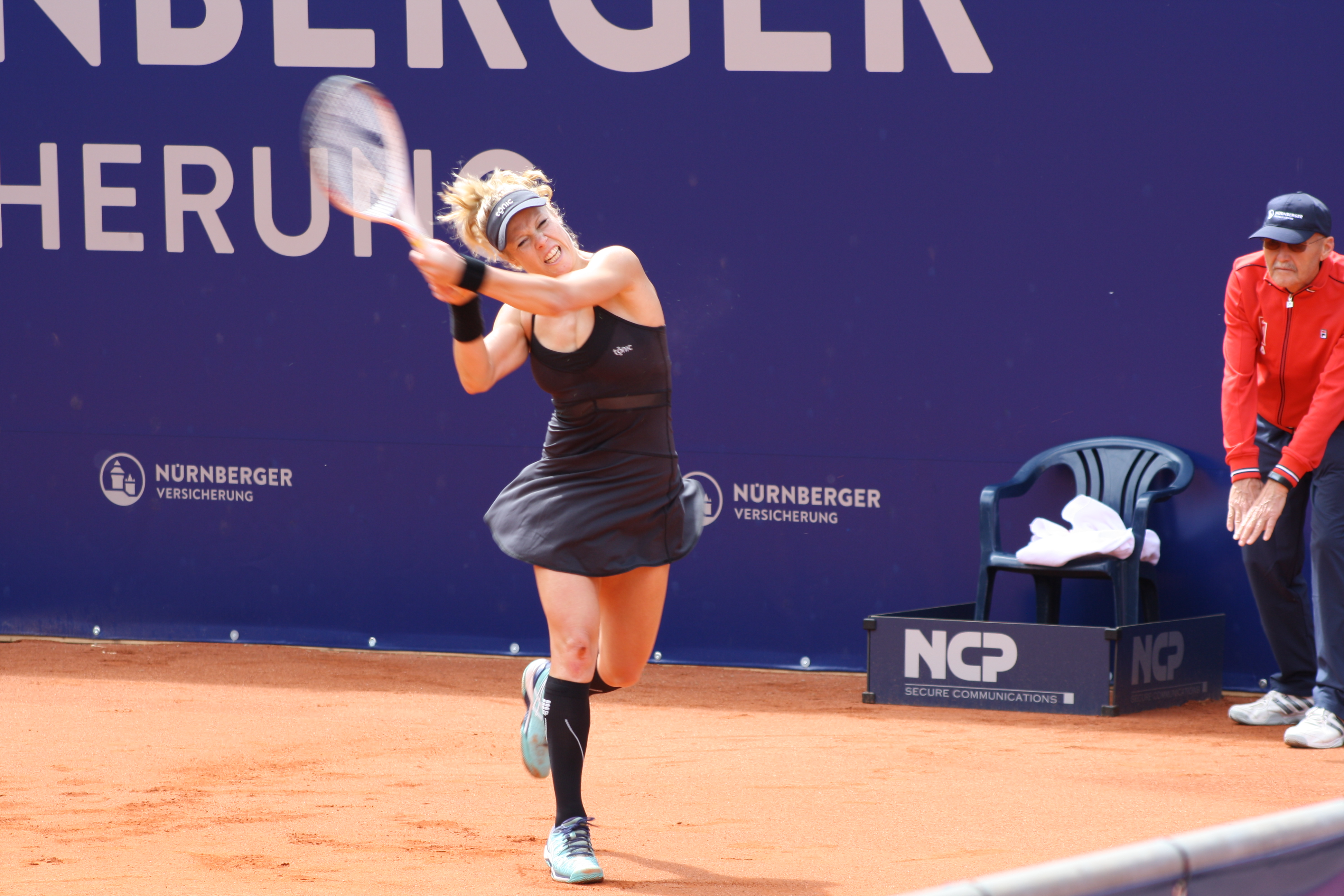 Laura Siegemund, May 2017